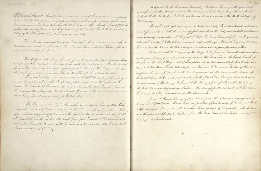 Description of assassination of William Fraser, Agent to the Governor-General of India. Folio from Reminiscences of Imperial Delhi’, an album consisting of 89 folios containing approximately 130 paintings of views of the Mughal and pre-Mughal monuments of Delhi, by Thomas Metcalfe, 1843.